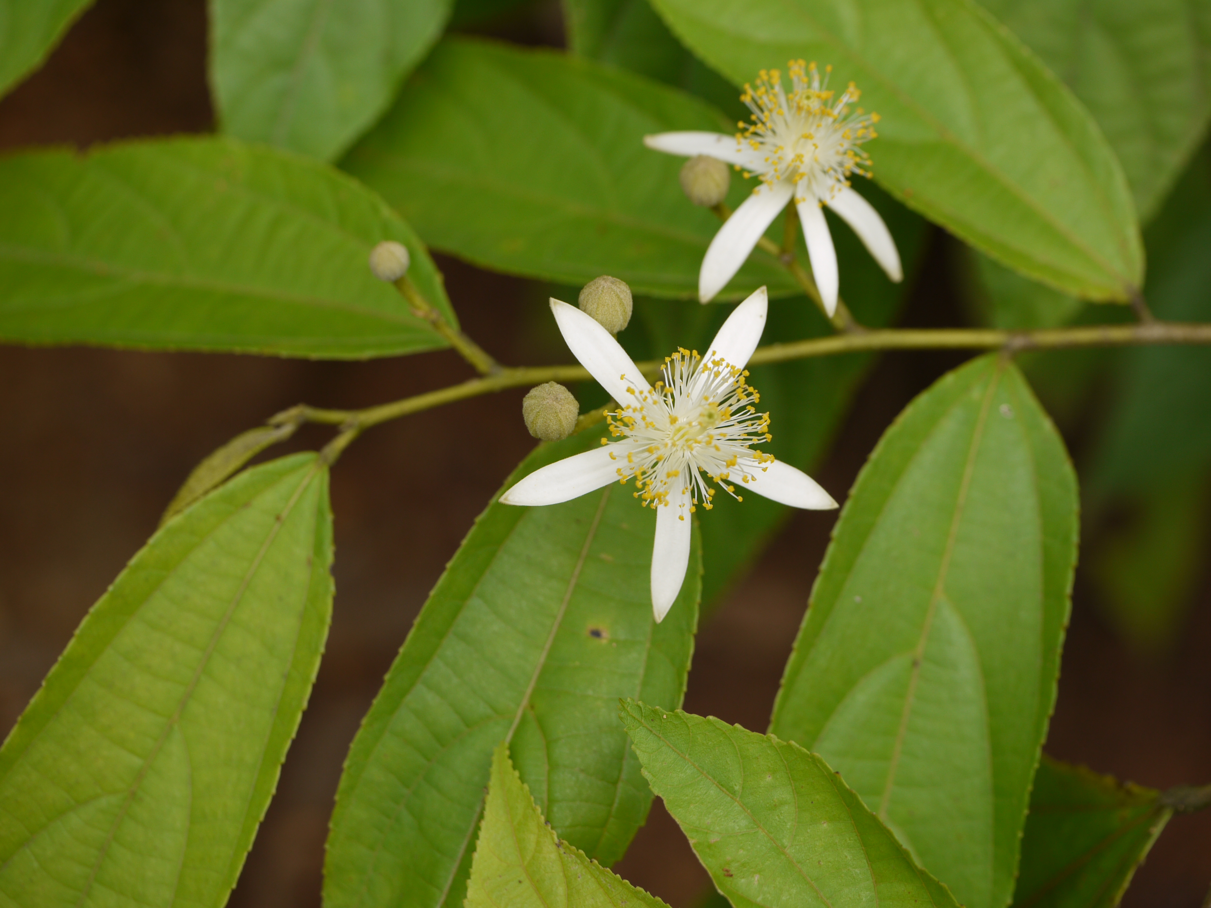 Tiliaceae (phalsa family) » Grewia serrulata GREW-ee-uh -- named for Nehemiah Grew, an English physician and author ser-yoo-LAY-tuh or ser-roo-LAH-tuh -- small-toothed - referring to leaf margins commonly known as: serrulate-leaved grewia • Bengali: panisara • Hindi: bhansuli, dun, kakki, kathbhewal, phirsan • Kannada: gurguri, javanigalle • Malayalam: narutha • Marathi: कावरी kawri • Tamil: anaikatti, narathai, udapai • Telugu: pegala, potriki, thegalle References: Flowers of India • Forest Flora of Andhra Pradesh